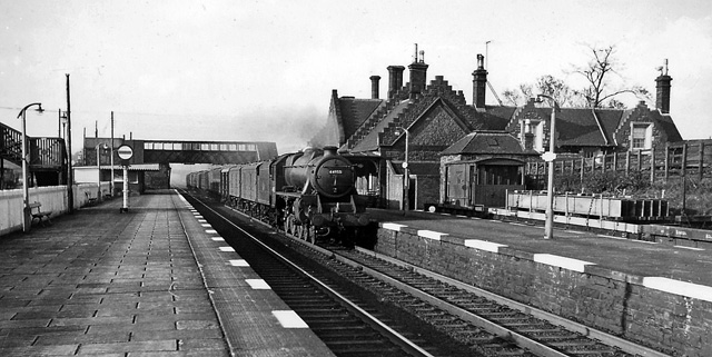 Beattock Station. Near to Beattock, Dumfries And Galloway, Scotland. View northward, towards Carstairs and Glasgow, also (formerly) Moffat. Carlisle - Glasgow West Coast Main Line, summit of celebrated Beattock Bank (steepest from the south, requiring banking engines). Branch to Moffat closed 6/4/64 (passengers 6/12/54); Beattock station closed 3/1/72.